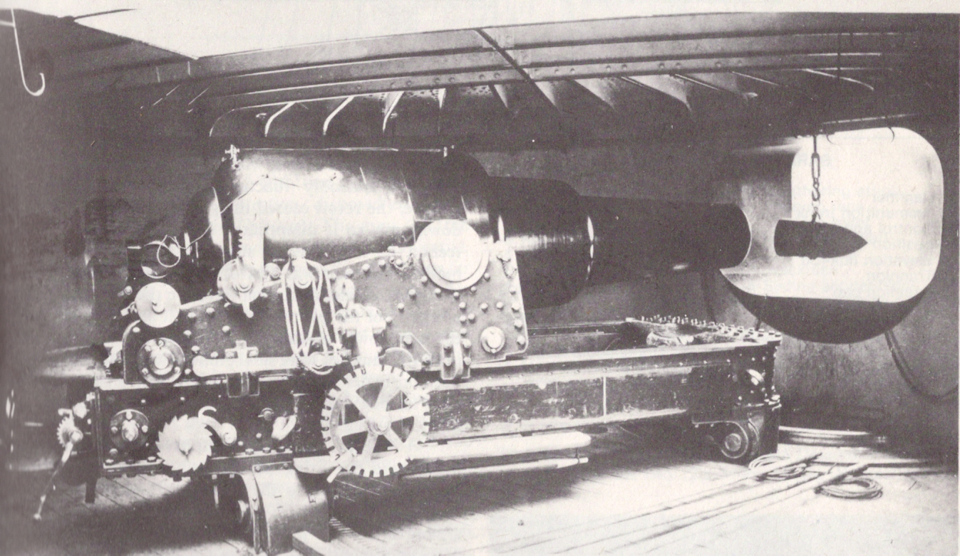 Photograph of 12-inch (305 mm) 25-ton muzzle-loading rifle aboard the British ironclad ram HMS Hotspur. One of the gun's shells is hanging in the gunport in front of the gun.